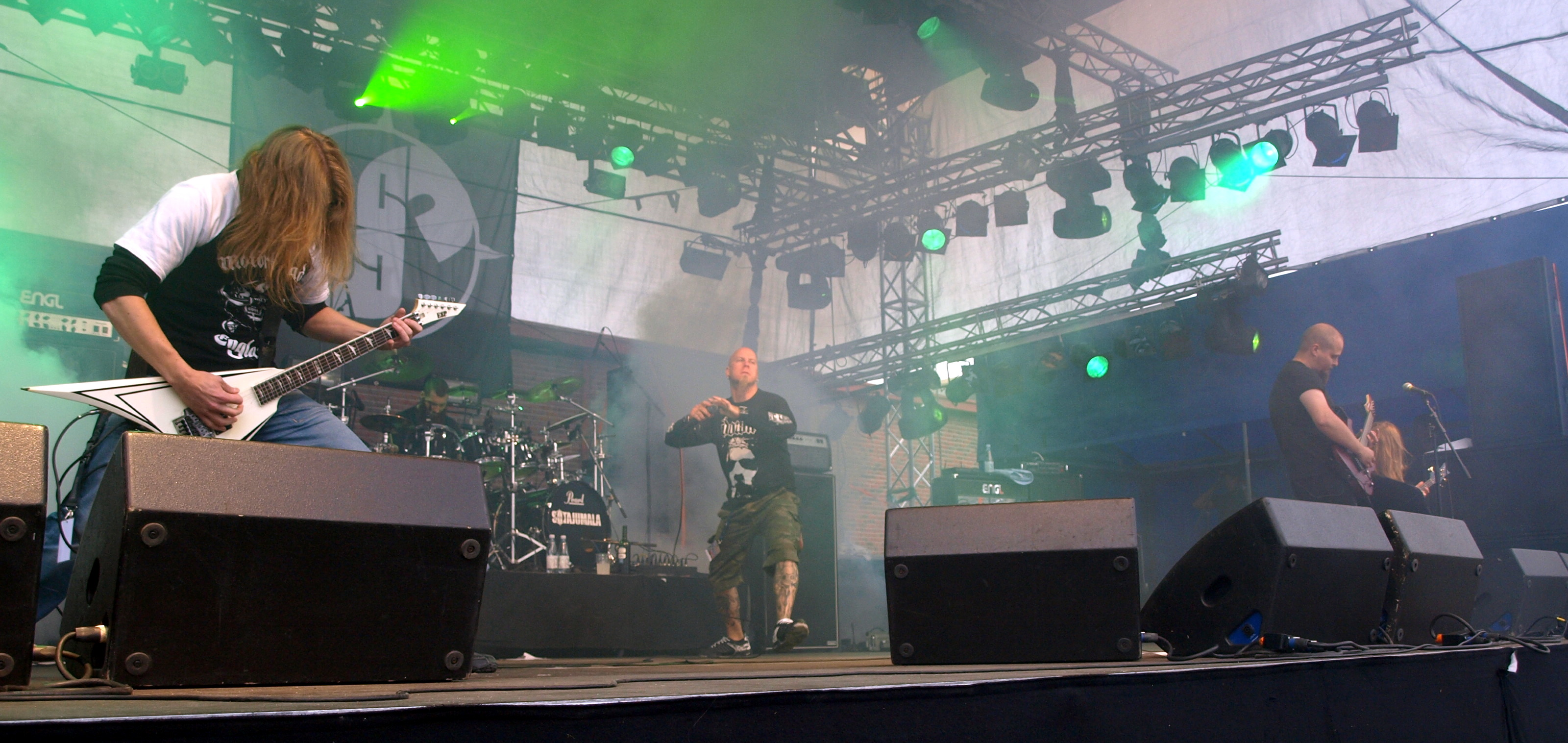 Finnish metal band Sotajumala live at Jalometalli 2008 in Oulu.